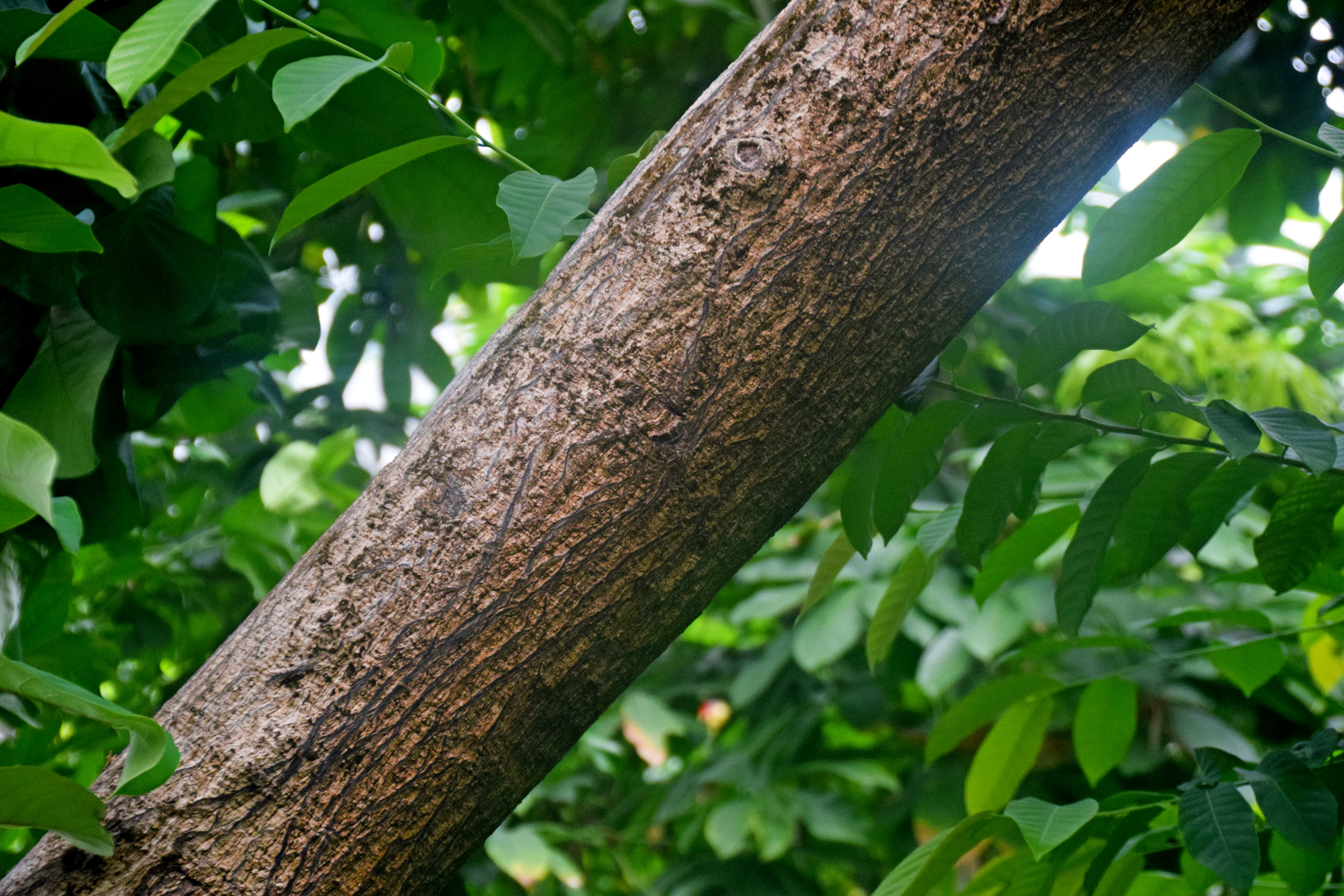 Monodora myristica in Tropengewächshäuser des Botanischen Gartens, Hamburg